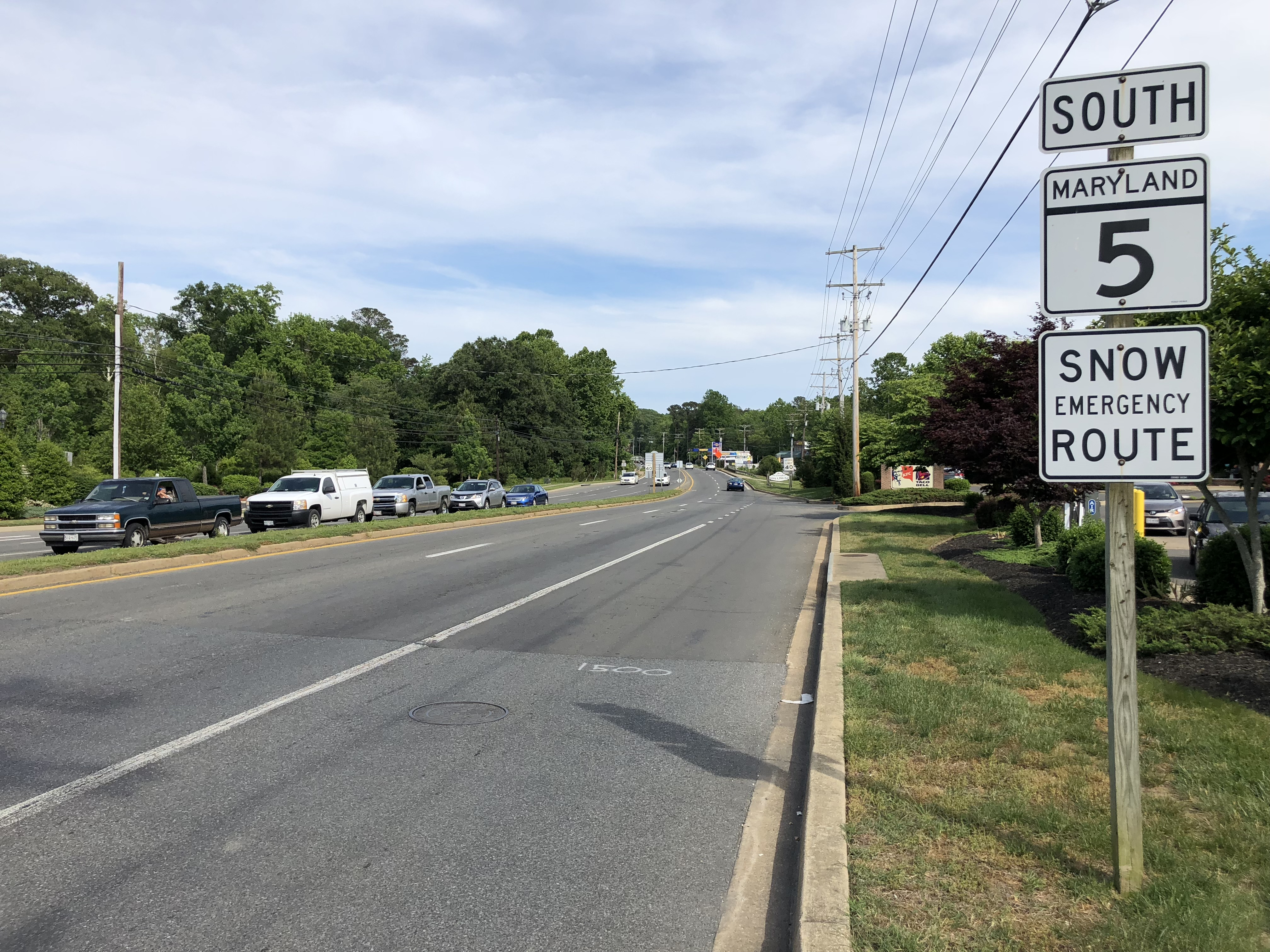 View south along Maryland State Route 5 (Point Lookout Road) just south of Maryland State Route 243 (Newtowne Neck Road) in Leonardtown, Saint Mary's County, Maryland